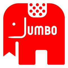 The logo of Jumbo Games Ltd